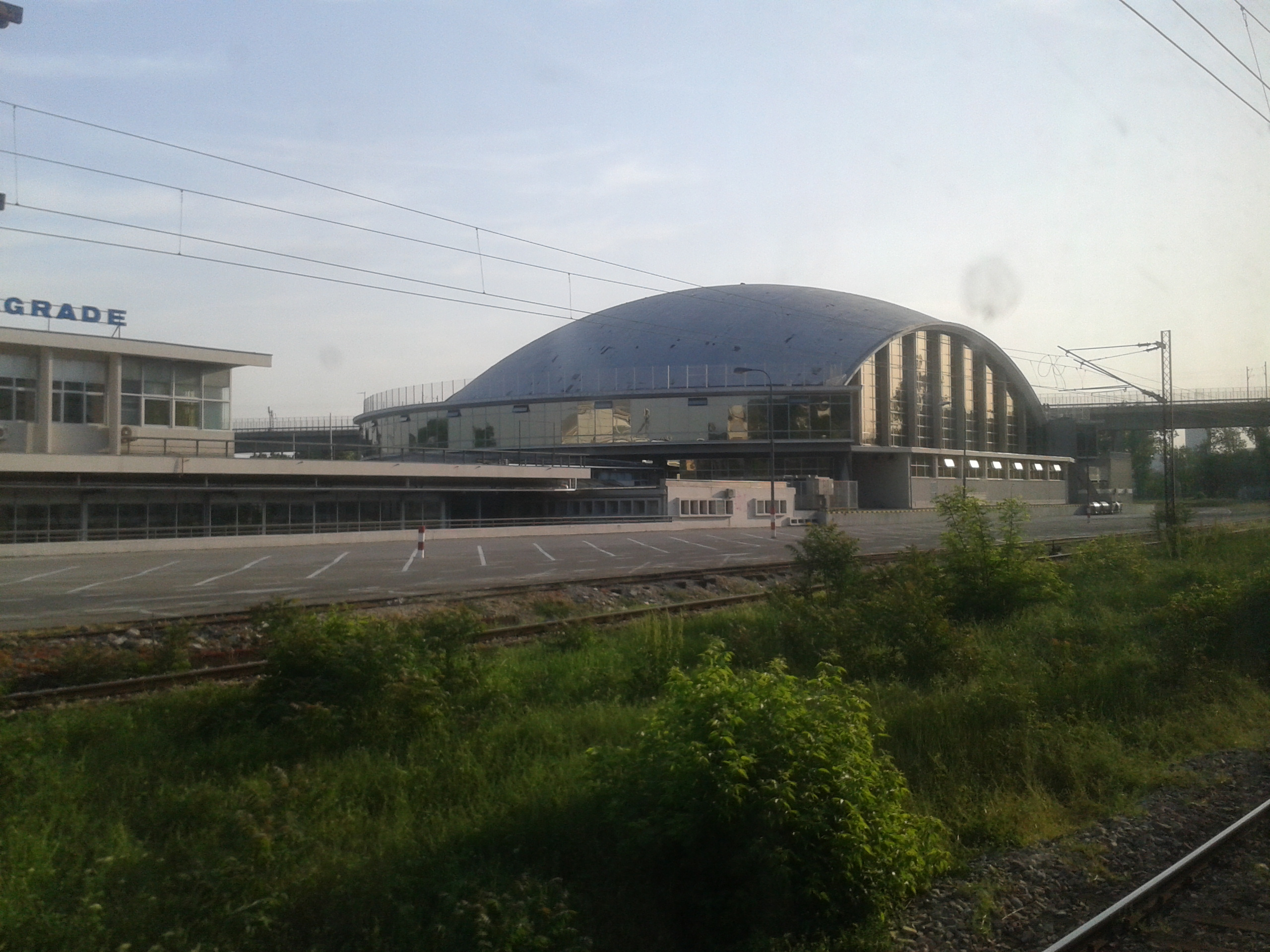 Caption from Bar-Belgrade railway.